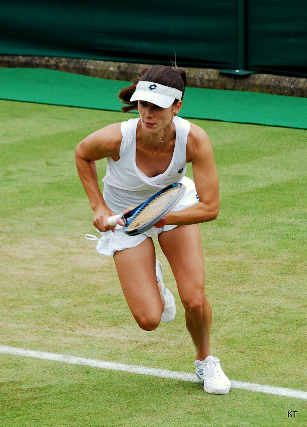 Tsvetana Pironkova during her first round match with Camila Giorgi. Pironkova won 6-2, 6-1. Day 2 of Wimbledon 2011.